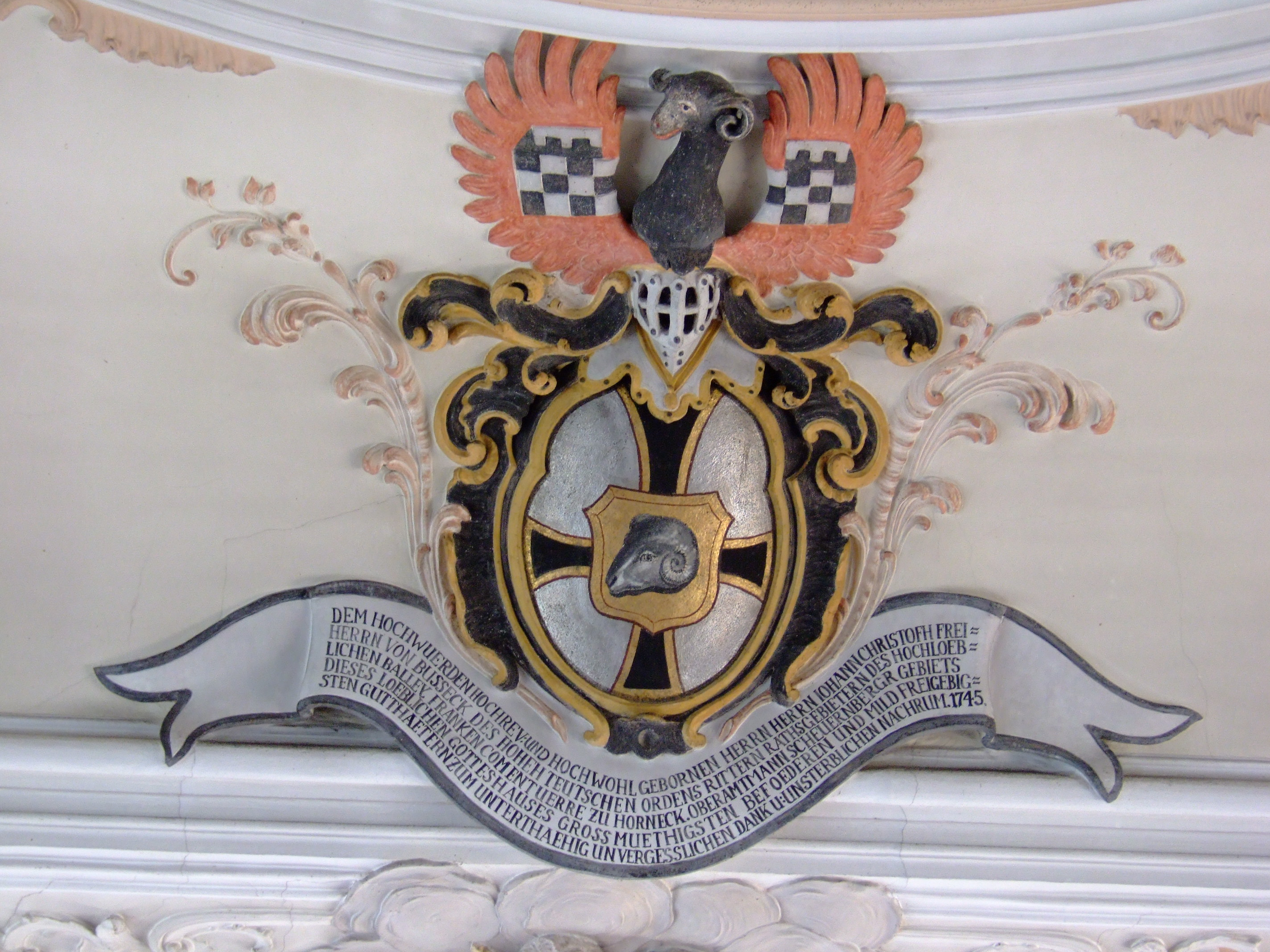 Coat Of Arms Of von Busseck in the Church "St. Remigius" with vicarage of the Village Neckarsulm-Dahenfeld (built: 1748)